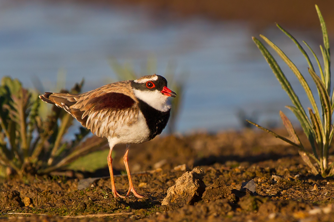 Crusoe Reservoir, Kangaroo Flat Vic.